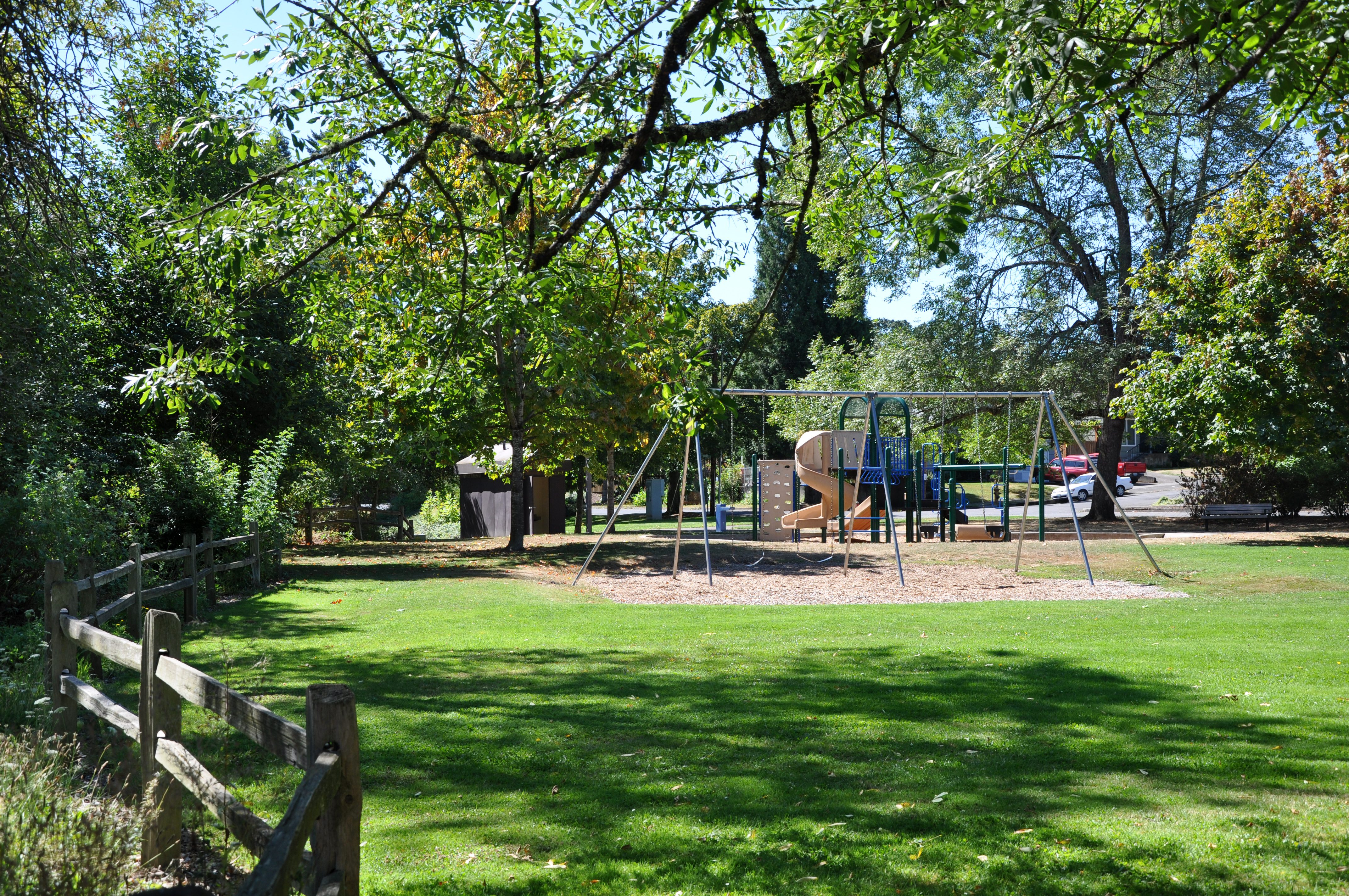 Johnson Creek Park in southeast Portland, Oregon, in the United States